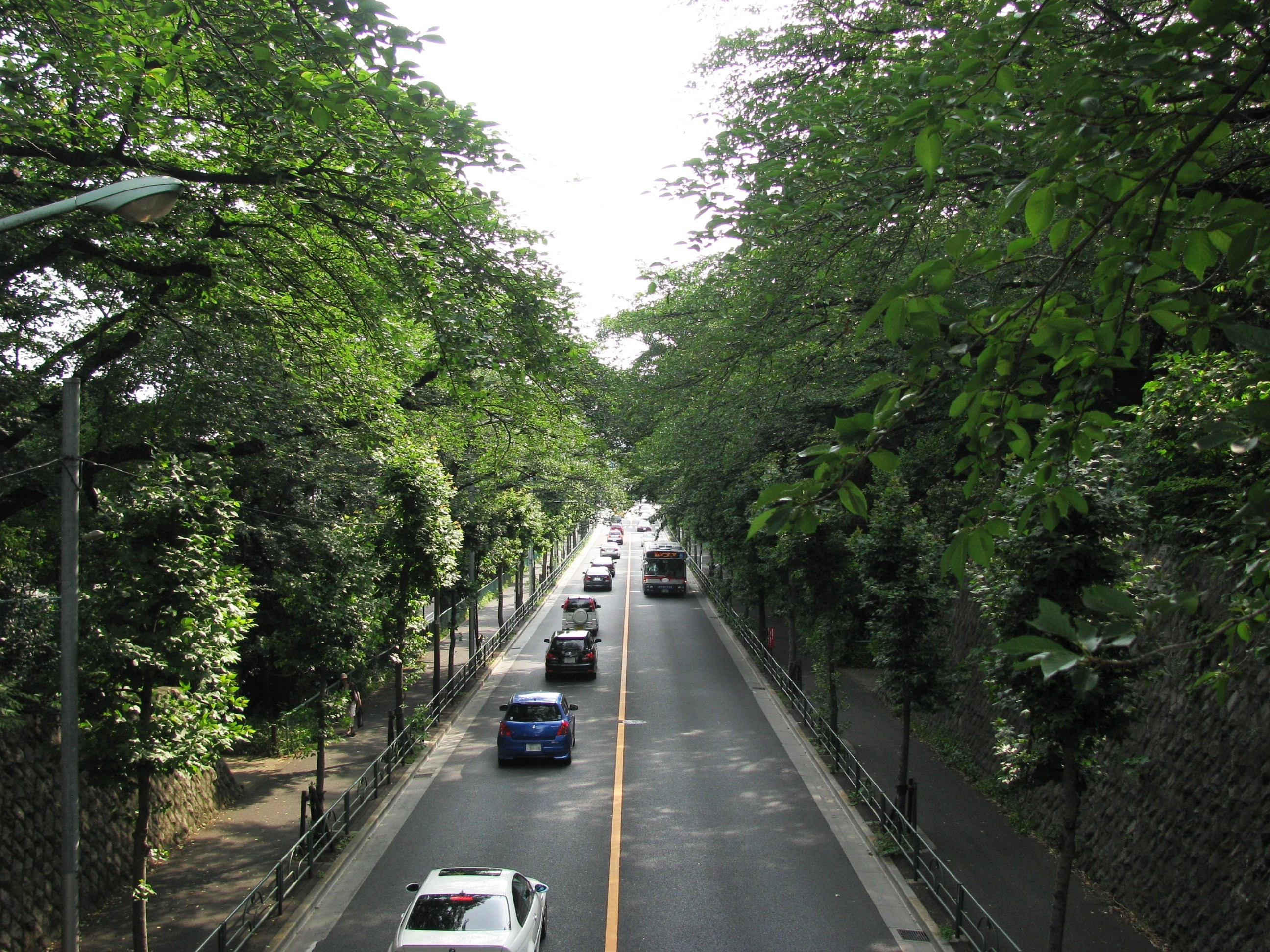 The Tokyo Prefectural Route 3. This location is Ōkura in Setagaya, Tokyo, Japan.